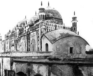 dfsdf